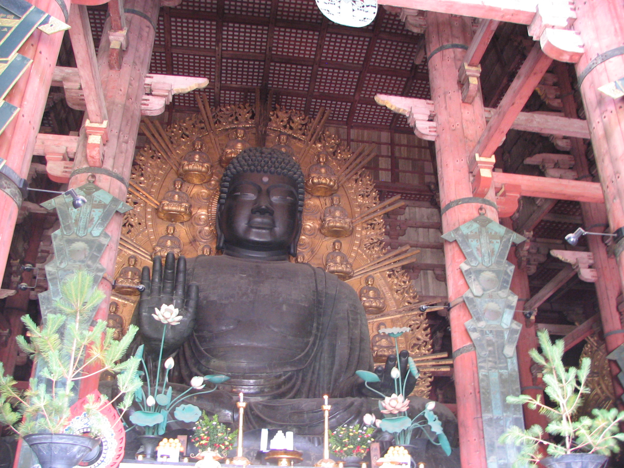 In a Trip To Nara, Japan, in 2009.